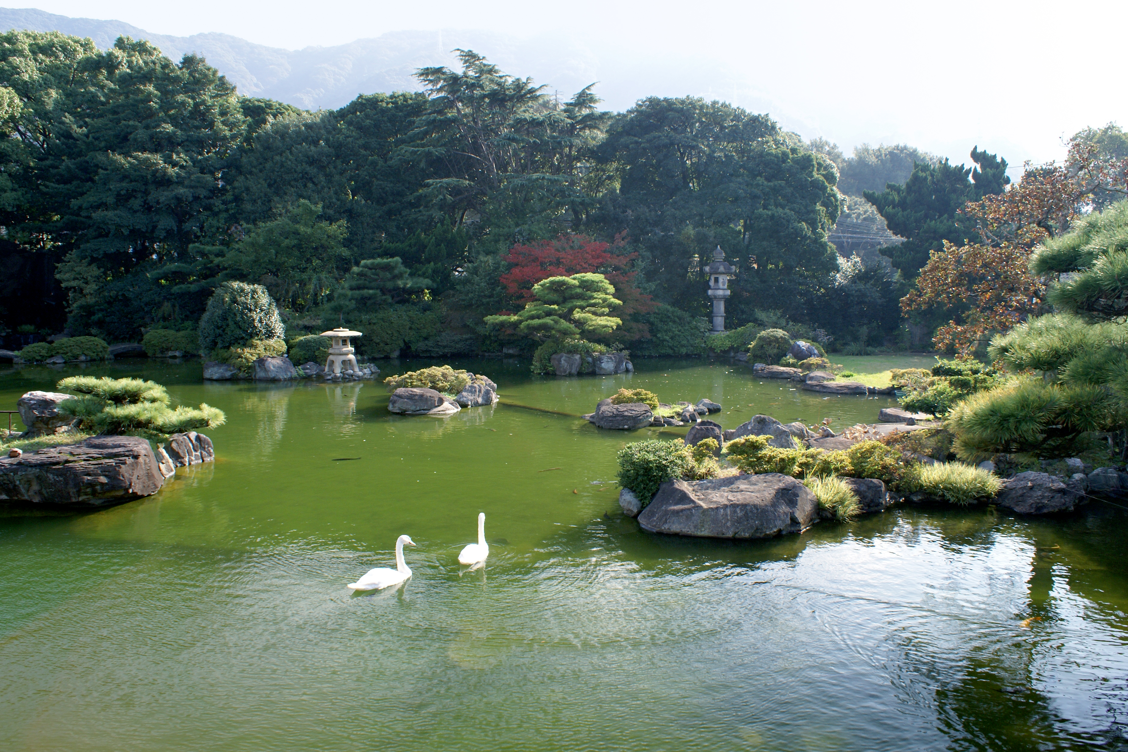 Chokyutei in Kainan, Wakayama prefecture, Japan